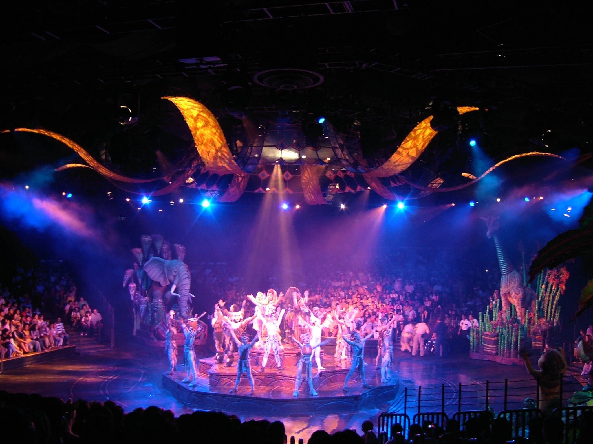 獅子王慶典(香港) (Festival of the Lion King(Hong Kong))